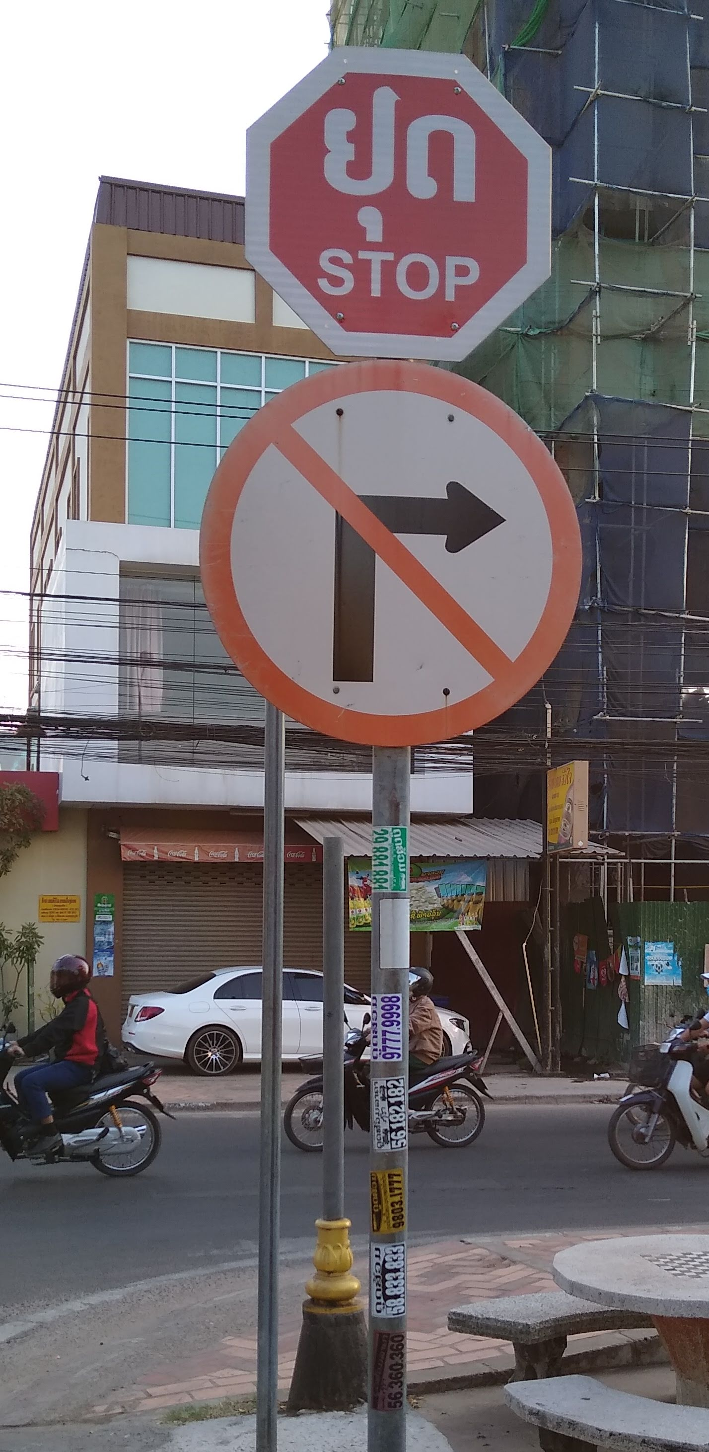 A street sign in Vientiane: "STOP" and "No right turns".